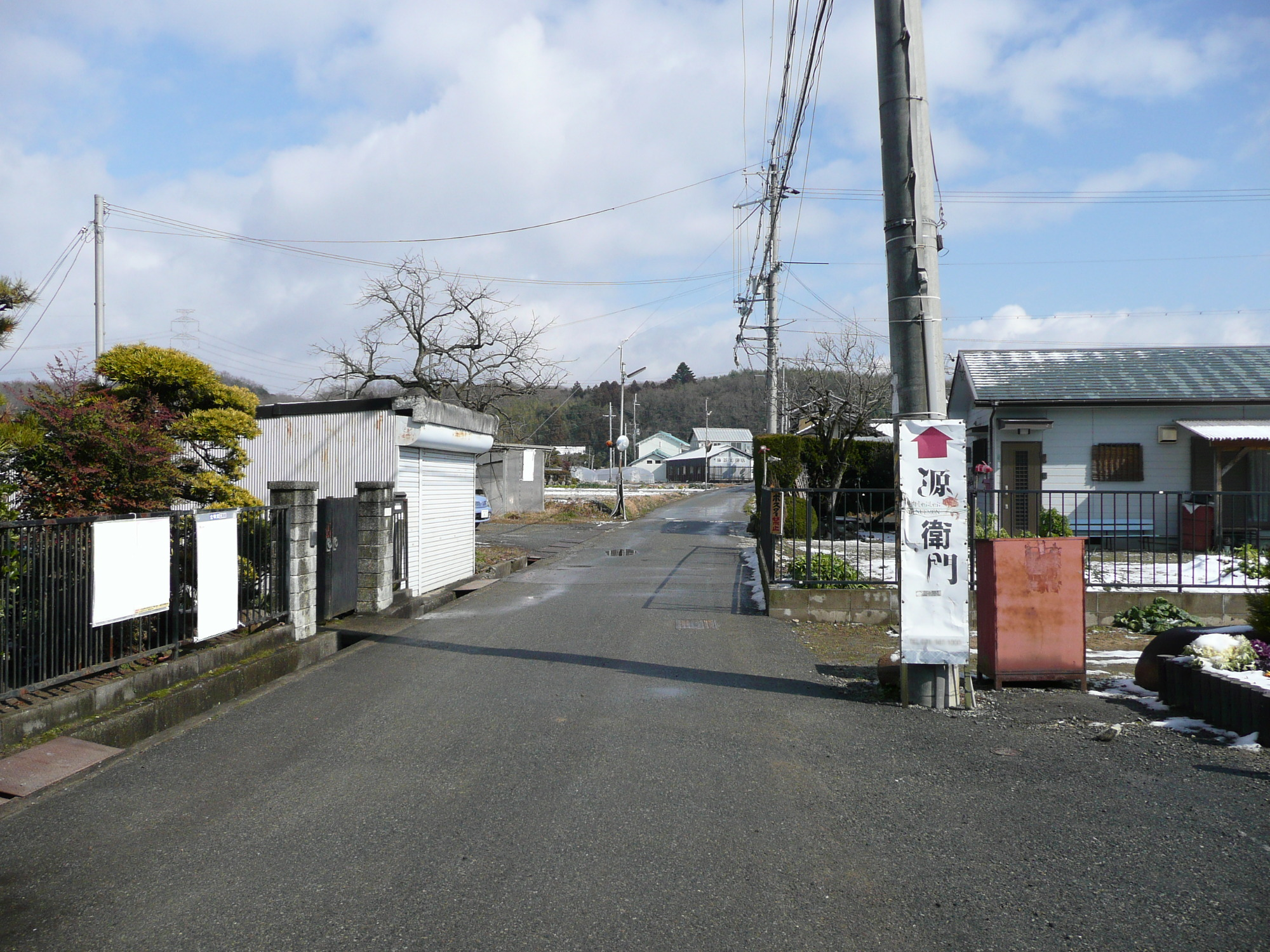 Kobe Electric Railway,Niro Station. / 神戸電鉄三田線二郎駅・駅前風景